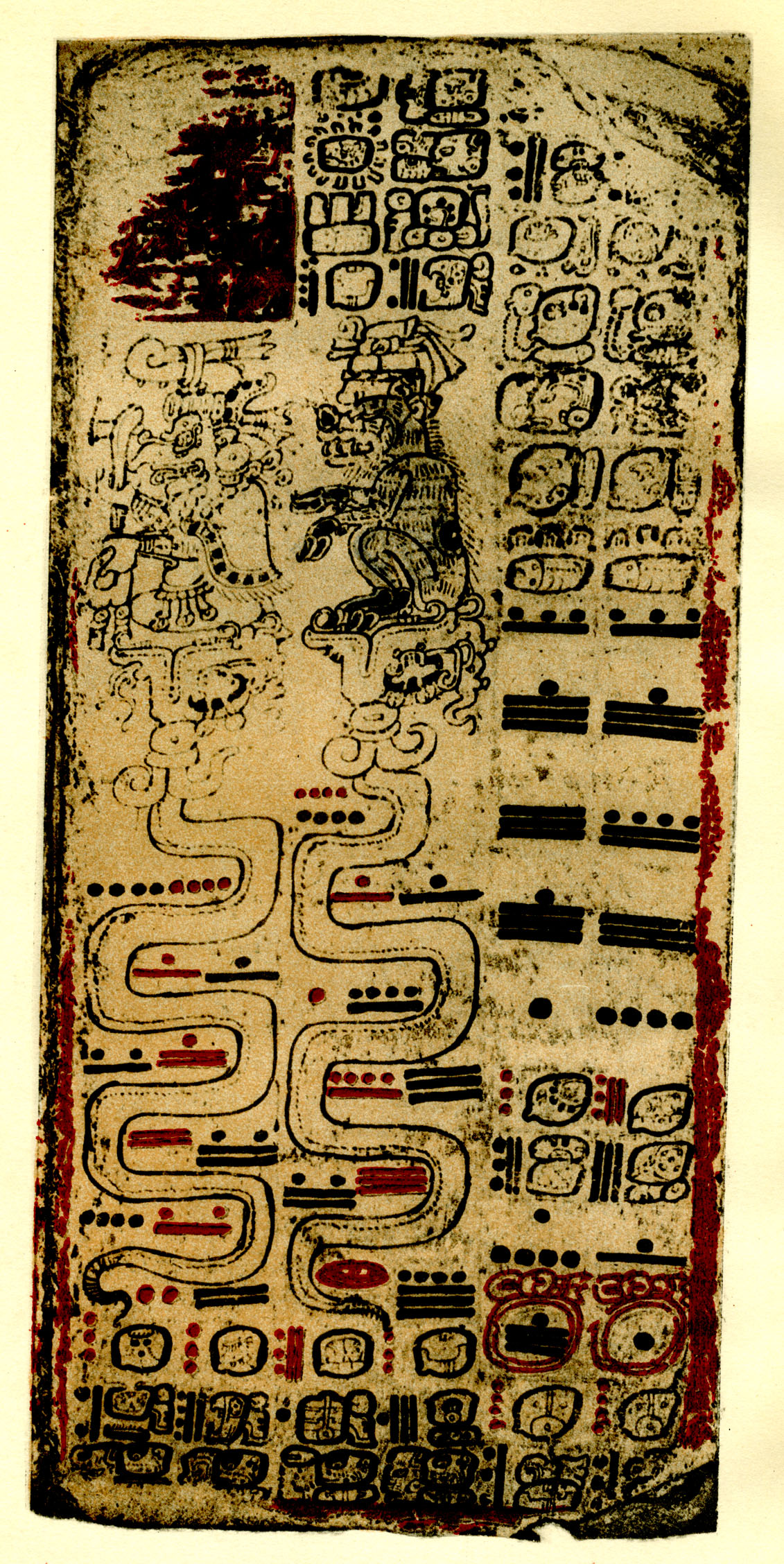 Page 62 of the Dresden Codex, showing the Serpent Numbers